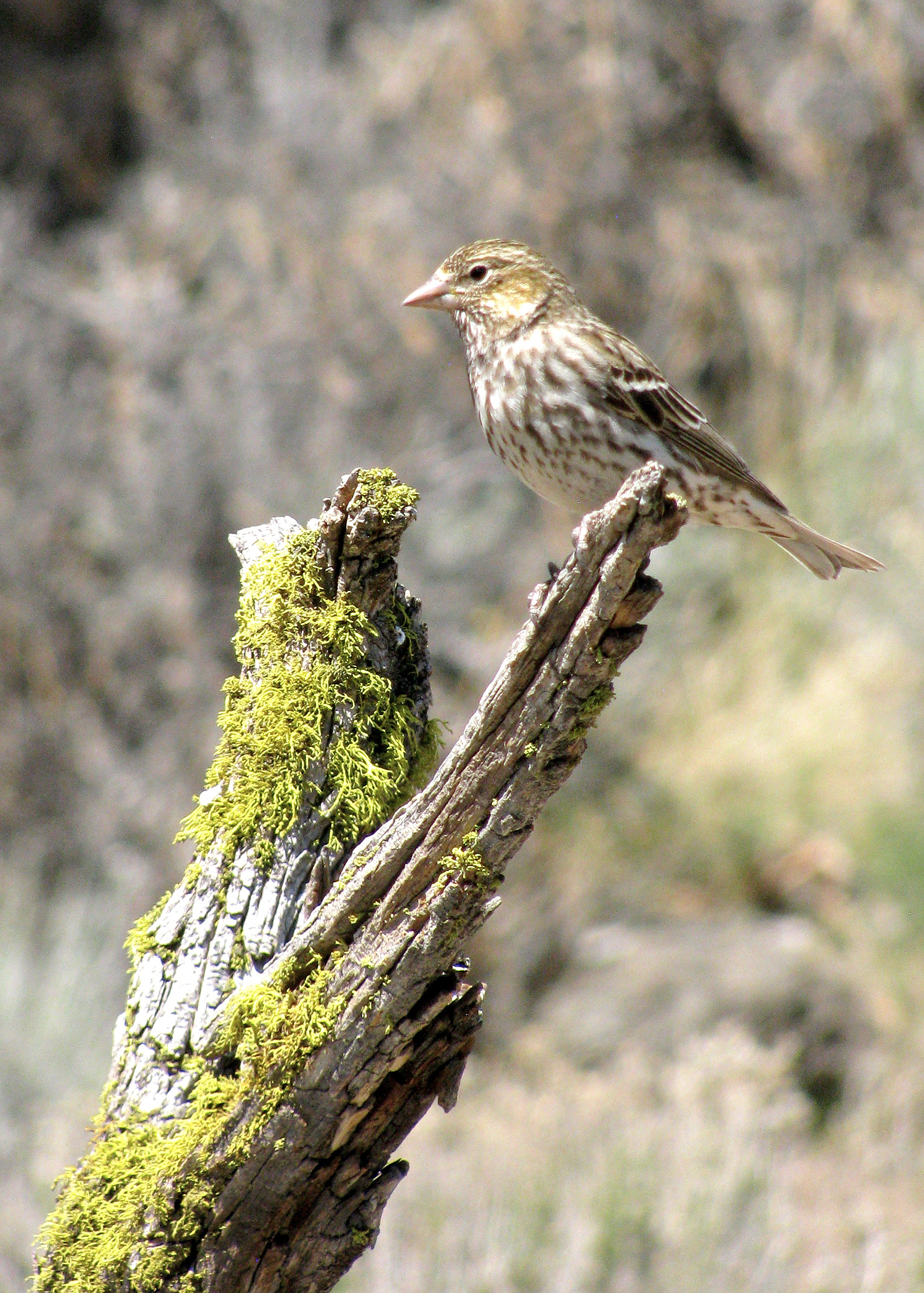 Photo by Simon Wray, Oregon Department of Fish and Wildlife Cassin's Finch (Carpodacus cassinii) This finch of montane pine and aspen forests is a surprisingly talented mimic, often incorporating songs and calls of the Mountain Chickadee, American Robin, Western Tanager, White-breasted Nuthatch, and Townsend's Solitaire into its own song. Adult male Cassin's Finches have bright crimson rose-pink caps, slightly paler pink upper chest and rump, and pale pink streaks in the wings. The colorful cap ends abruptly at the brown nape of the neck. Females and first-year males and females are identical. The Cassin's Finch is a fairly common summer resident from the Cascade summit eastward throughout all mountainous and forested regions of eastern Oregon. Female shown